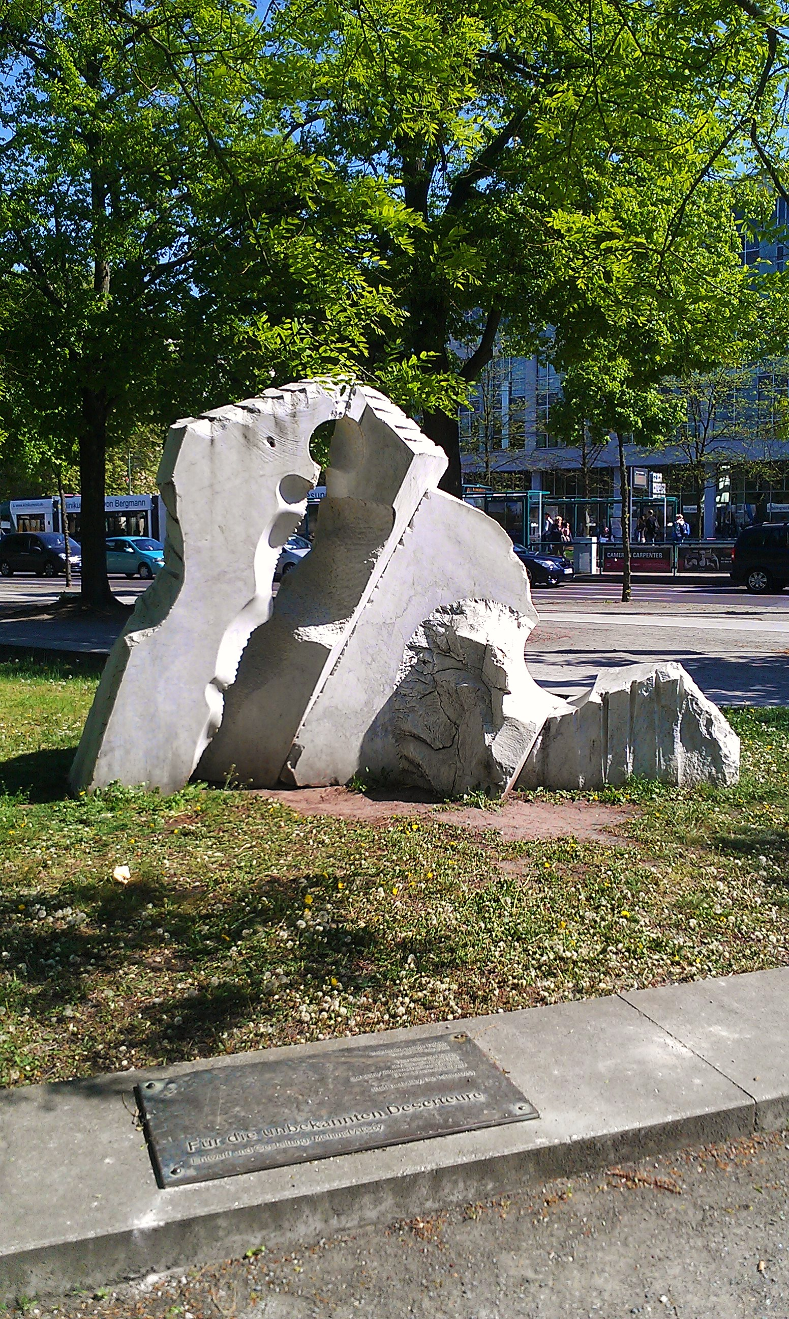 The Memorial to the Unknown Deserter, a sculpture created by Mehmet Aksoy in 1989; erected in Unity Square, Potsdam.